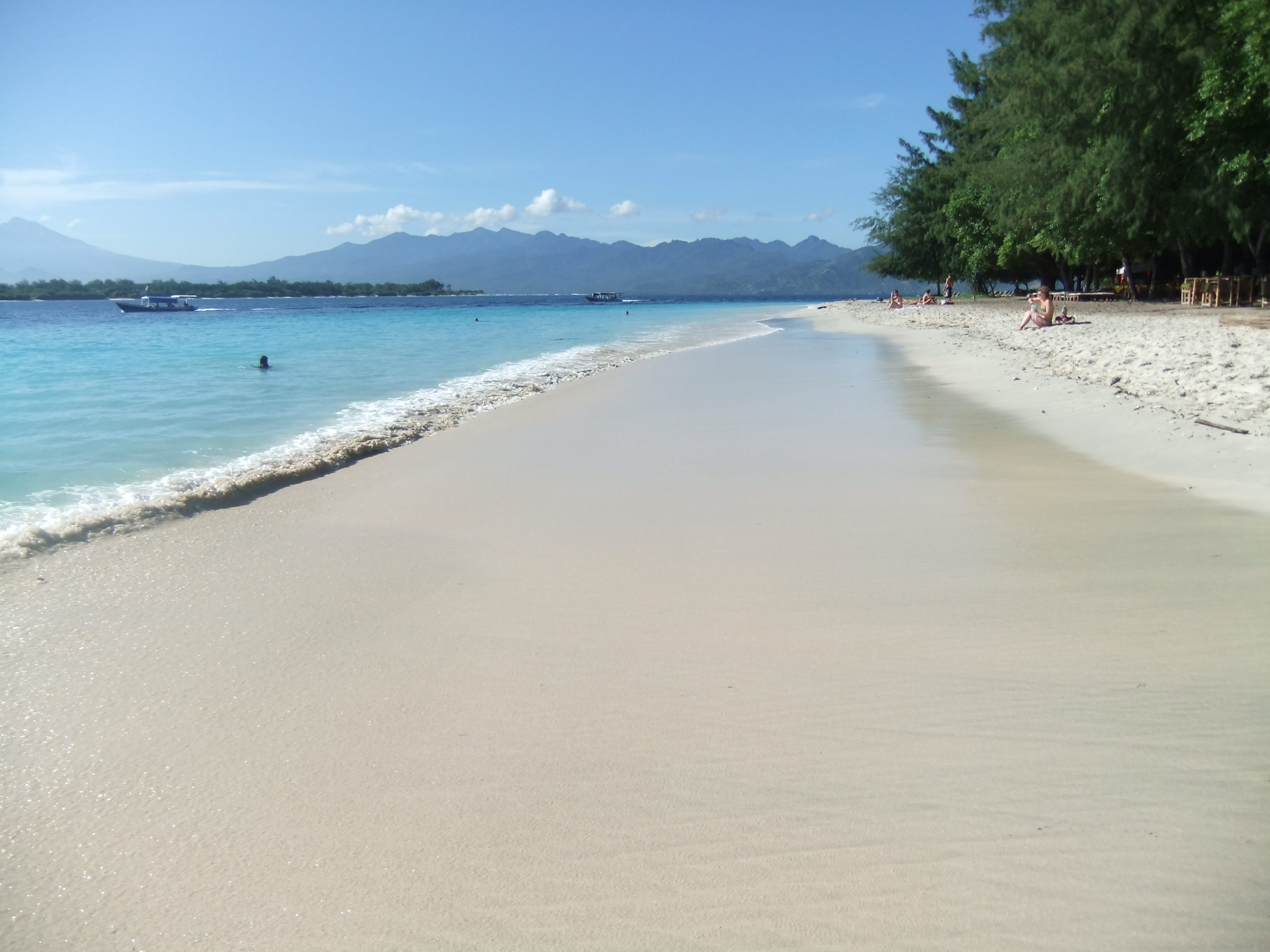 Gili Trawangan beach